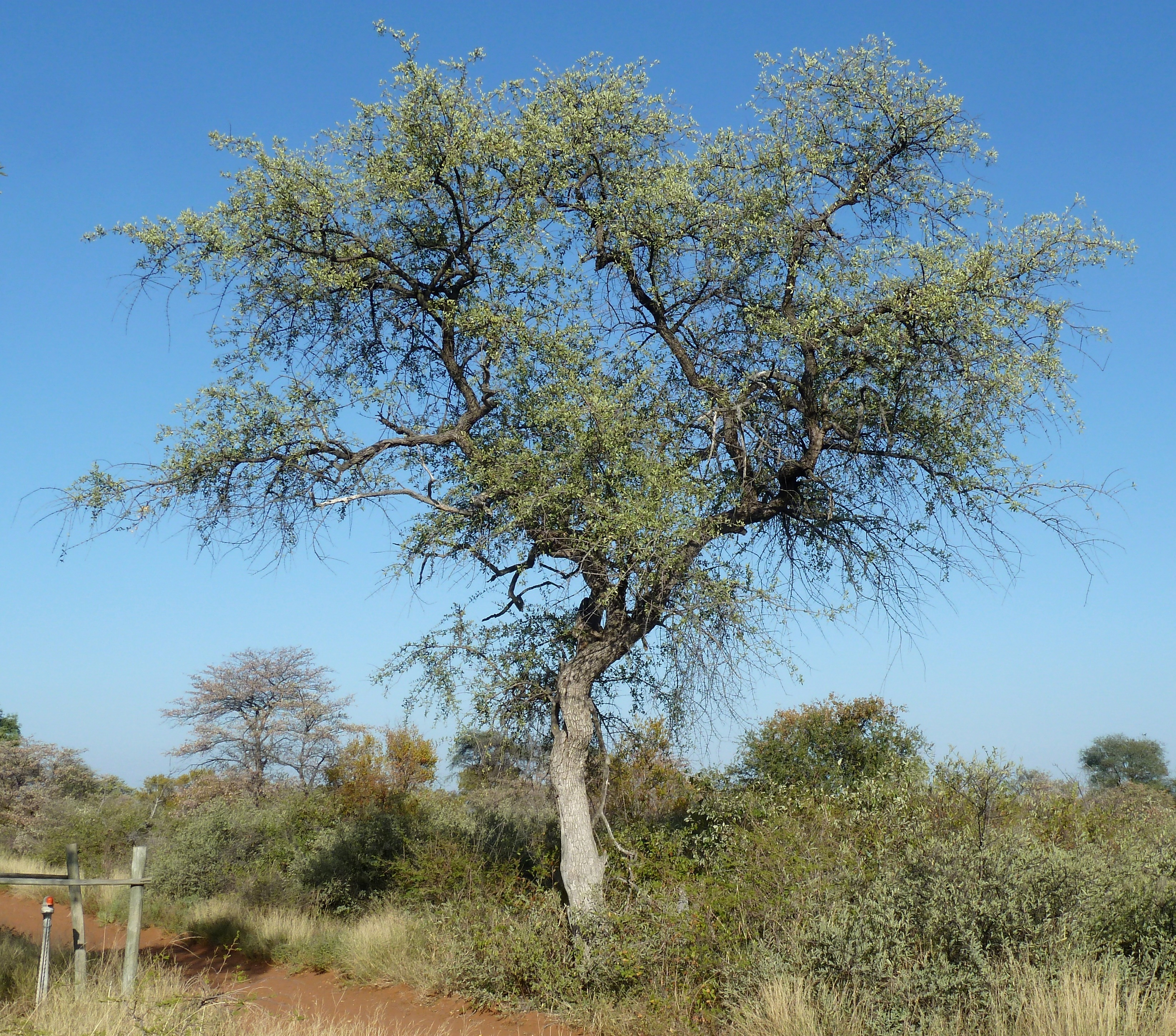 Habit of a Leadwood at Zinyathi lodge, Steenbokpan, Limpopo